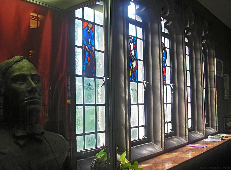 A bust and stained glass windows honoring Stephen Foster and his music at the Stephen Foster Memorial at the University of Pittsburgh .